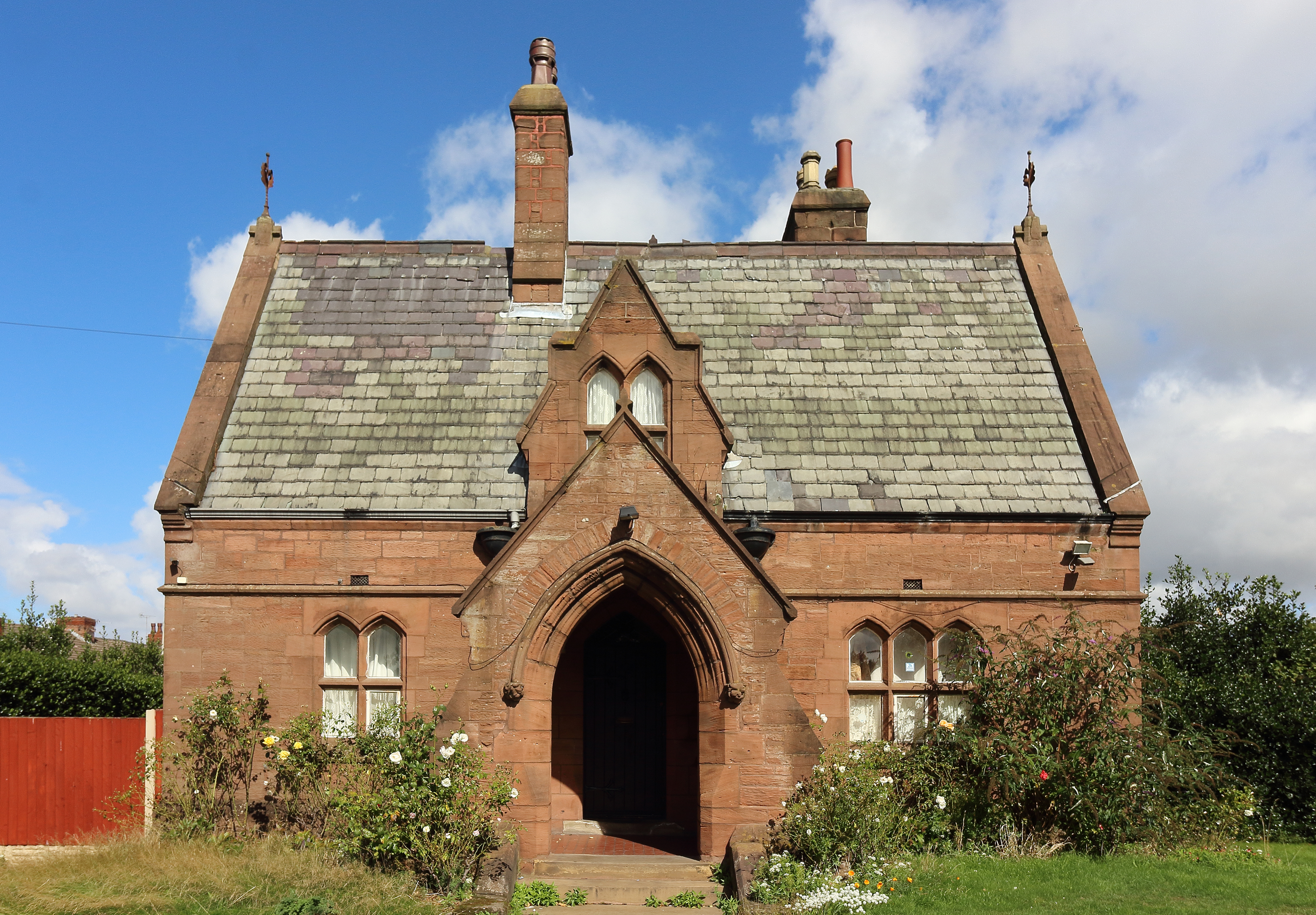 Grade II listed lodge at the north side just inside the Walton Lane entrance to Anfield Cemetery, Liverpool.